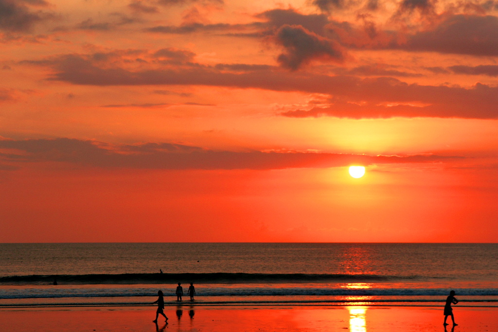 Thousands of people rush out on the Kuta Beach near sunset. Playing soccer, taking pictures of .. you know, sunset, surfing, walking around randomly with their kids, dogs, cats, horses .. lot and lots of people. The Sun goes underwater almost at the same time during the year making it easier to get used to gathering on the beach. Warm conjunction of place and time. If you have a moment, I hope you'll view this at the larger size linked below: View On Black